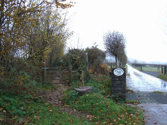 Roman road The bridleway on the left follows the route of a Roman road. To the right is the entrance and driveway to Middlewood Farm, The Welsh Venison Centre.